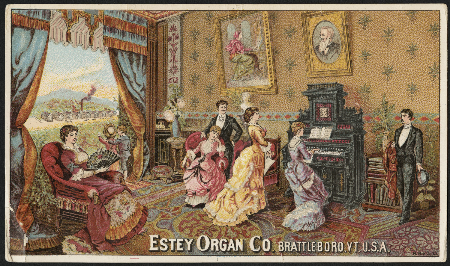 File name: 10_03_001424a Binder label: Pianos/Organs Title: Estey Organ Co. Brattleboro, Vt. U.S.A. (front) Created/Published: N. Y. : M, M & O Date issued: 1870-1900 (approximate) Physical description: 1 print : chromolithograph ; 9 x 14 cm. Genre: Advertising cards Subject: People; Organs Notes: Title from item. Statement of responsibility: Estey Organ Co. Collection: 19th Century American Trade Cards Location: Boston Public Library, Print Department